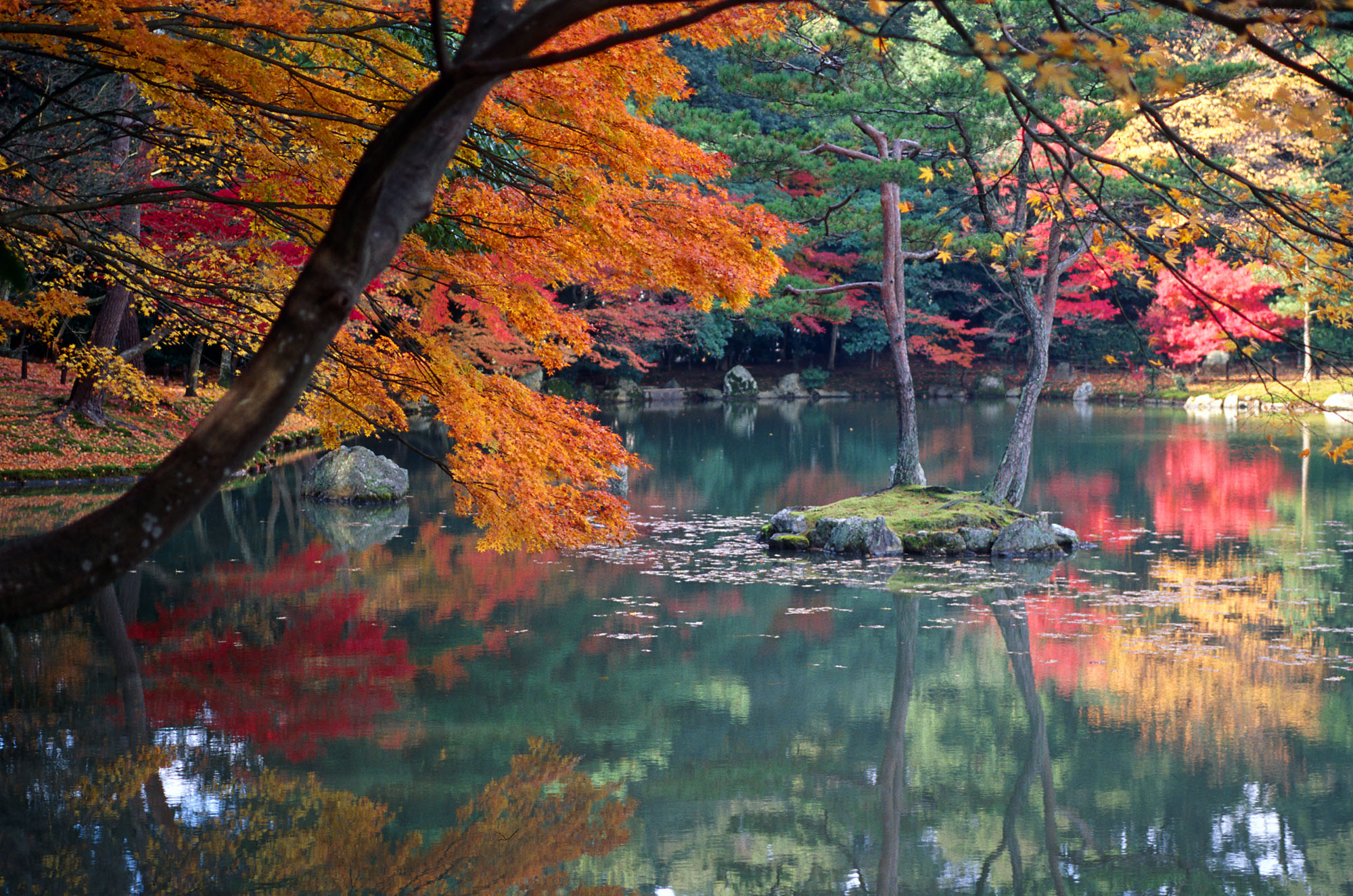 Autumn in Kyoto, Japan. I took this photo and contribute my rights in the file to the public domain; individuals and organizations retain rights to images in it.